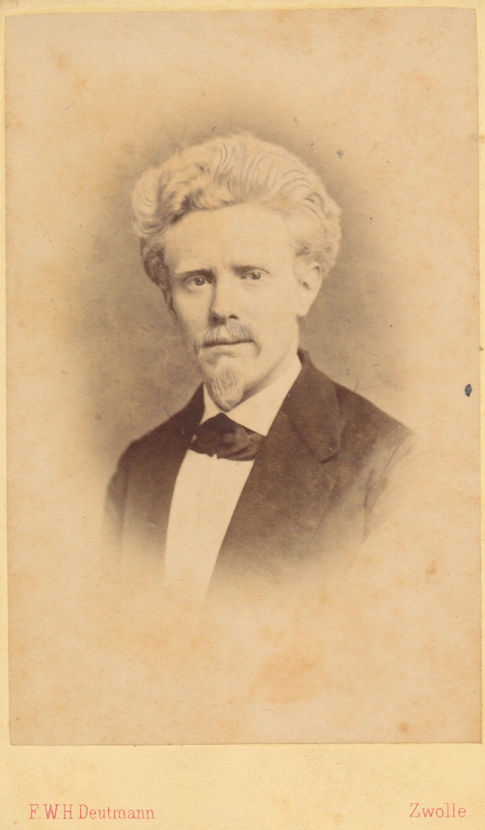 Herman Derk van Ketwich Verschuur in 1873 Foto gemerkt: F.W.H. Deutmann photogr. atelier Kamperstraat Zwolle